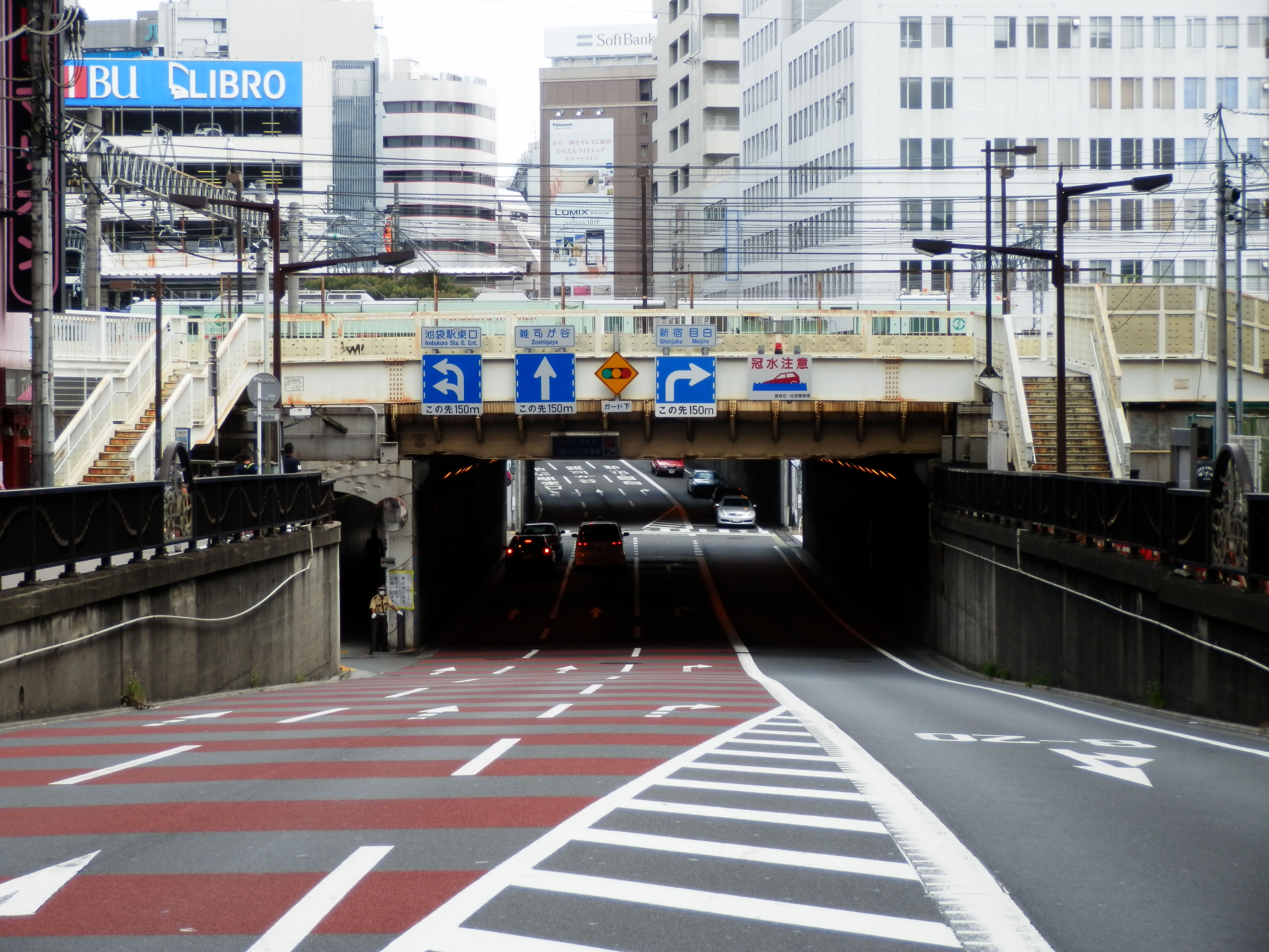 Bikkuri gādo (west side) (Railroad bridge in Ikebukuro, Tokyo, Japan)